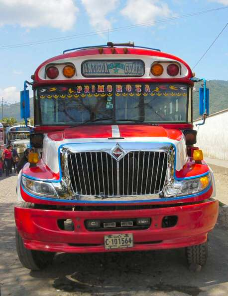 Author: Chmouel Boudjnah. Location: Guatemala Description: The famous Chicken Bus in Guatemala